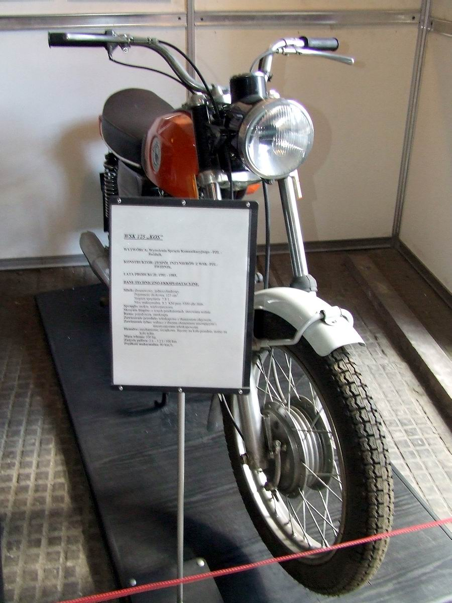 Polish WSK 125 Kos motorcycle, 1981-1985